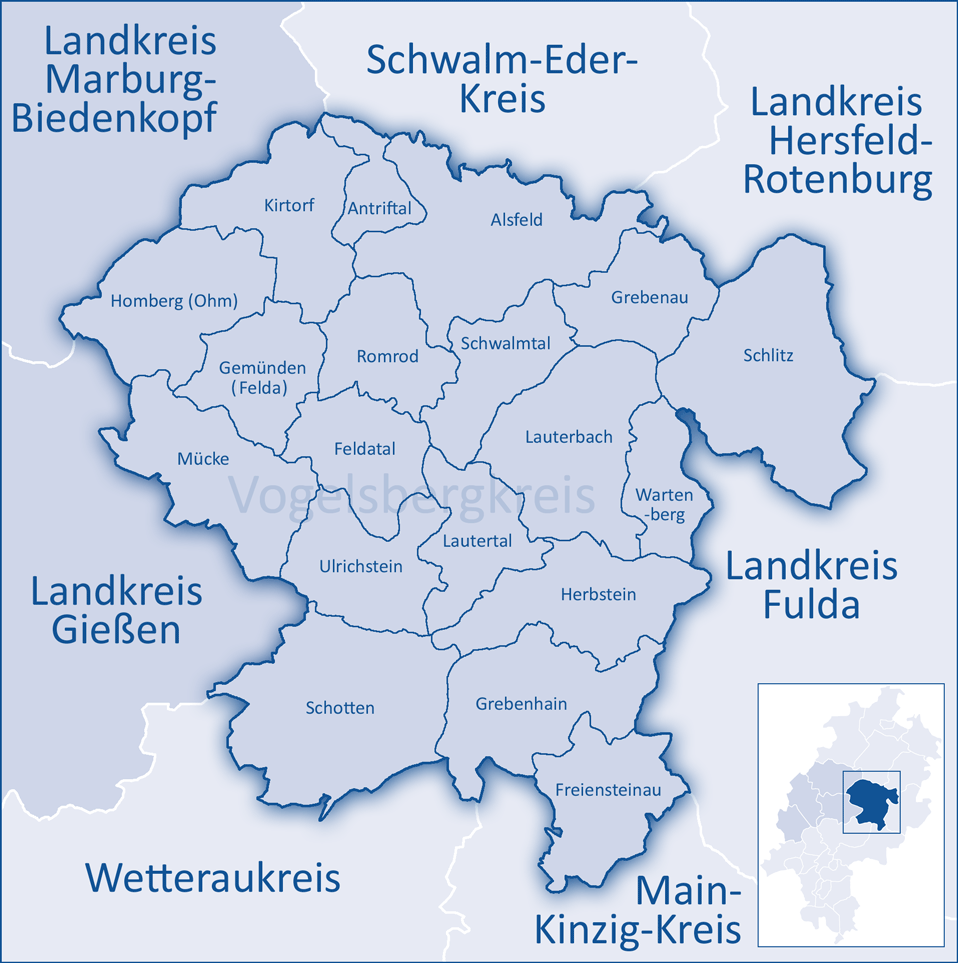 The map shows a district in the area of Vogelsbergkreis